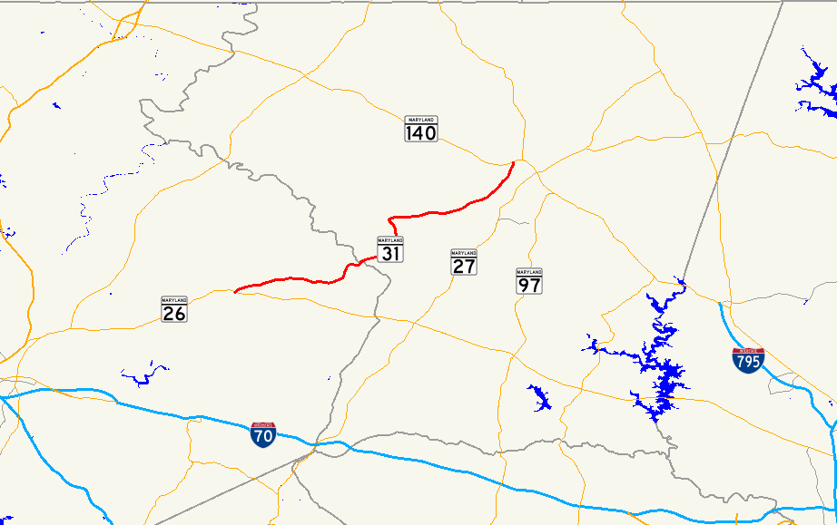 Map of Maryland Route 31